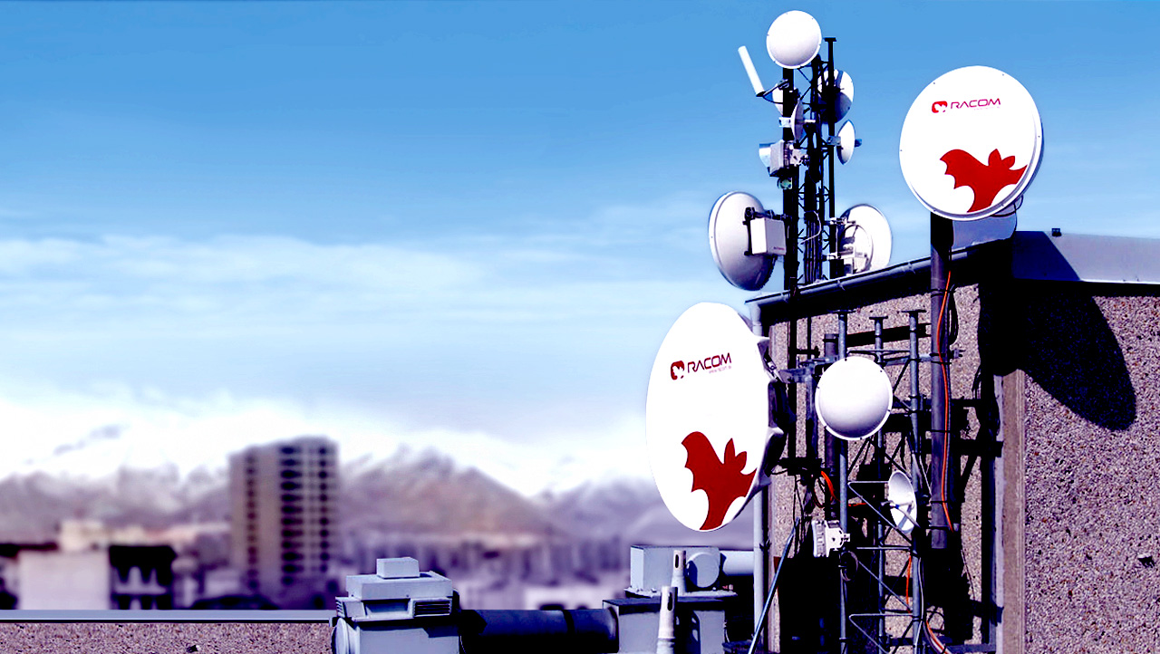 racom